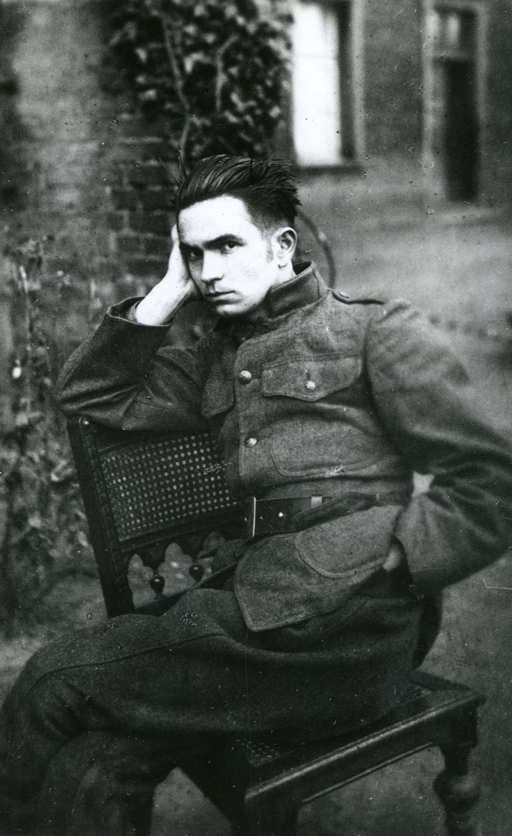 Paul Van Ostaijen in military uniform, around 1916 (?)